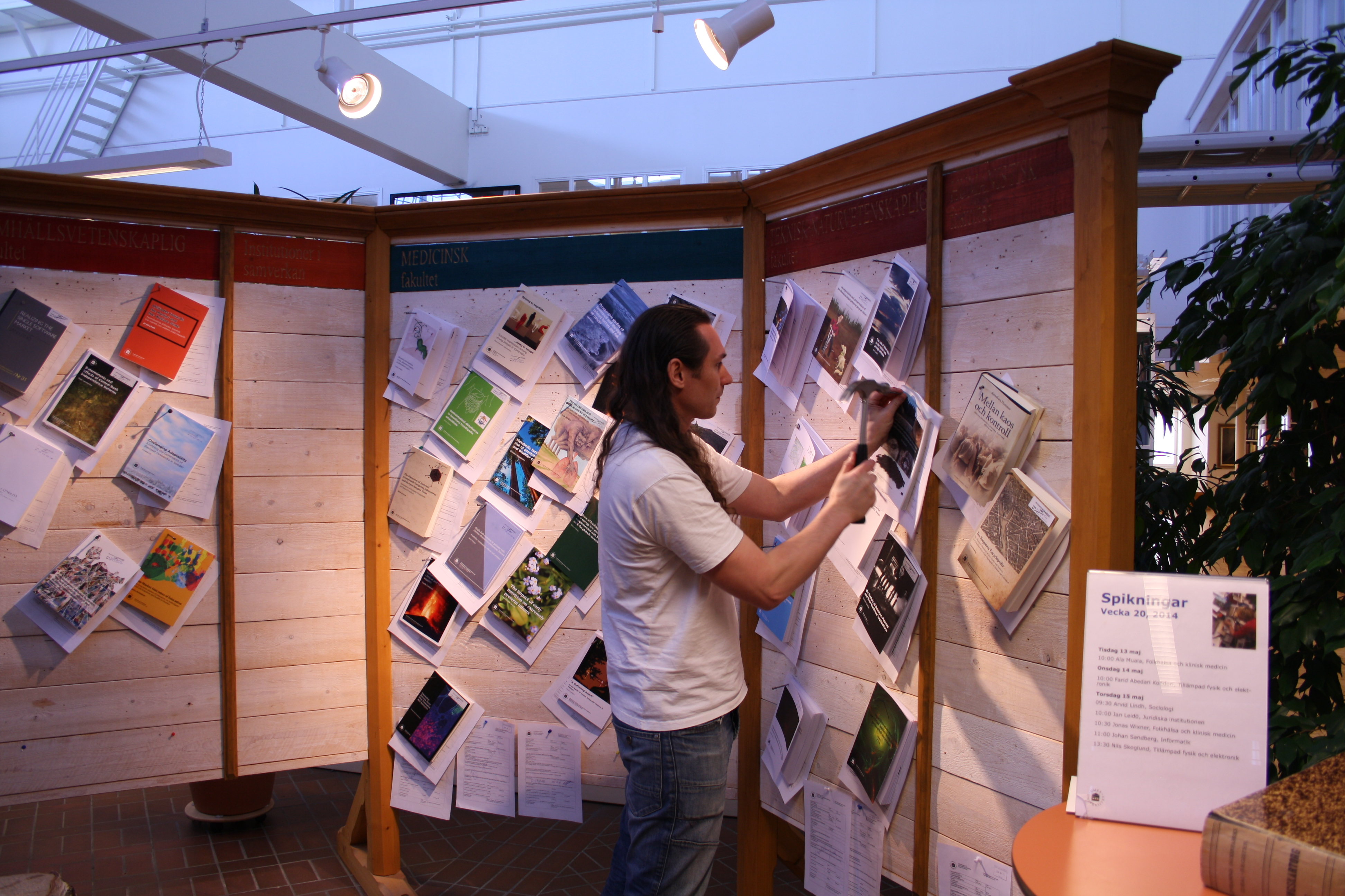 A doctoral student nails traditionally his thesis on the wall at Umeå University Library